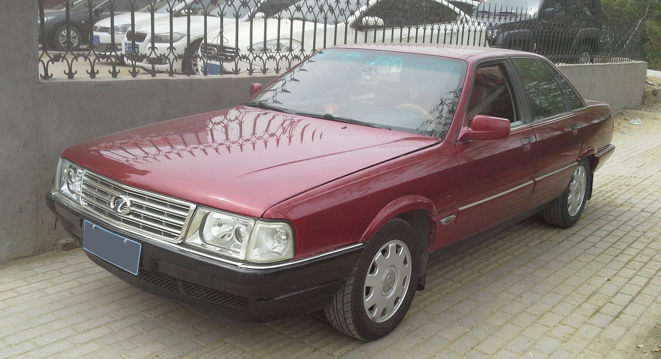 Hongqi CA7180A3E photographed in Zhengzhou, Henan province, China.